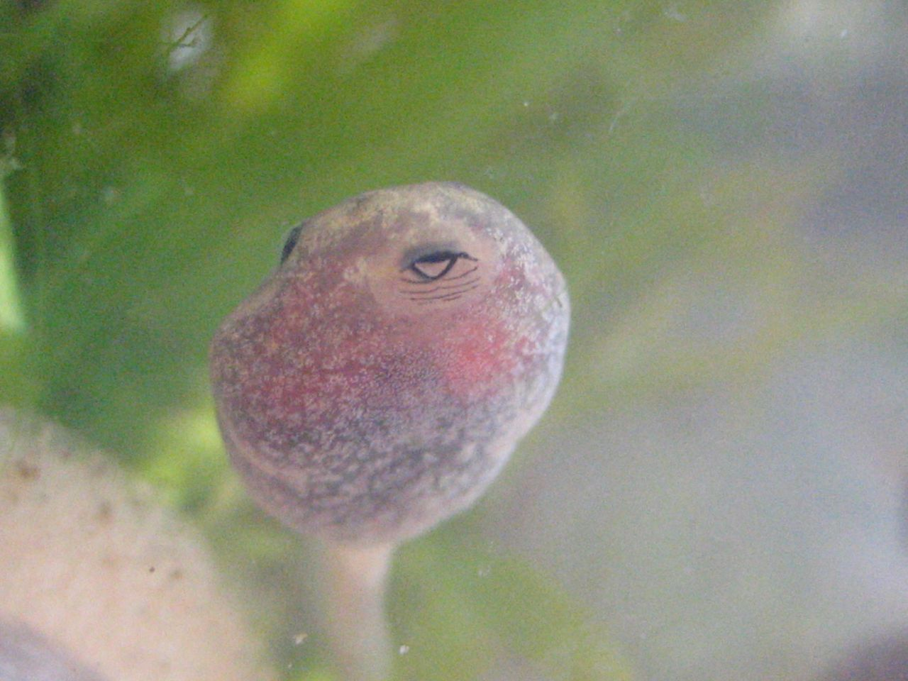 Tadpole mouth.